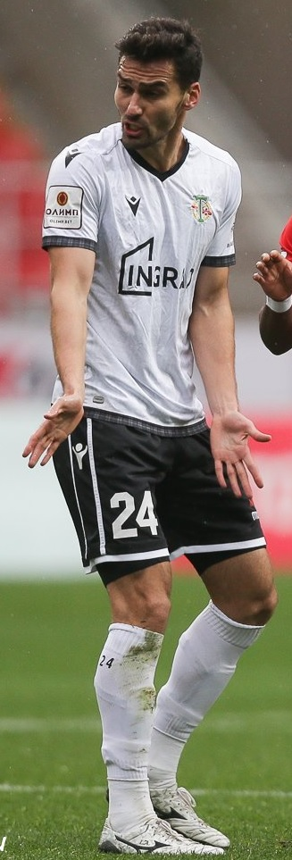 Andrei Lyakh with FC Torpedo Moscow in a game against FC Spartak Moscow.